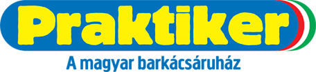 Logo Praktiker DIY retailer, Hungary